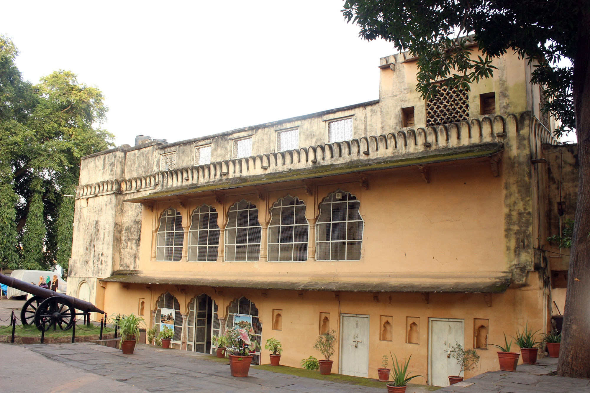 Golghar